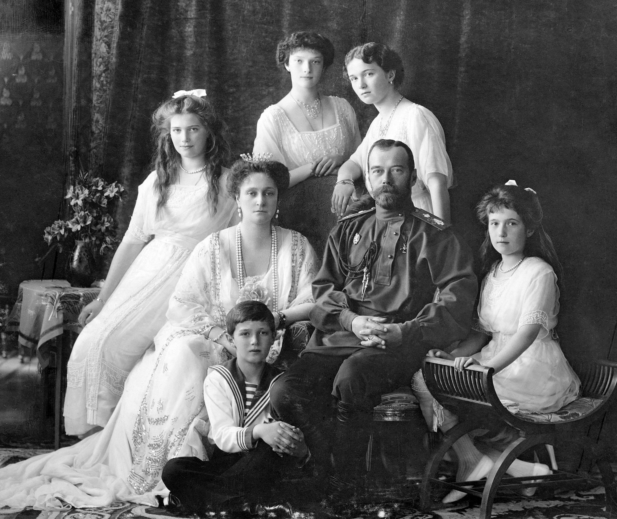 Royal family of Tsar Nicholas II Photograph of the Russian Imperial Family, 1913. Left to right, seated: Grand Duchess Marie Nicholaevna; Tsaritsa Alexandra Feodorovna; Tsarevitch Alexei Nicholaevitch; Tsar Nicholas II; Grand Duchess Anastasia Nicholaevna Standing: Grand Duchess Tatiana, Grand Duchess Olga